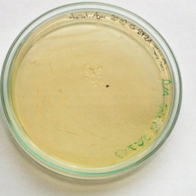 Serratia odorifera on urea agar acc. to Christensen, showing a negative result (the microorganism does not produce the enzyme urease in order to hydrolyze urea to ammonia).